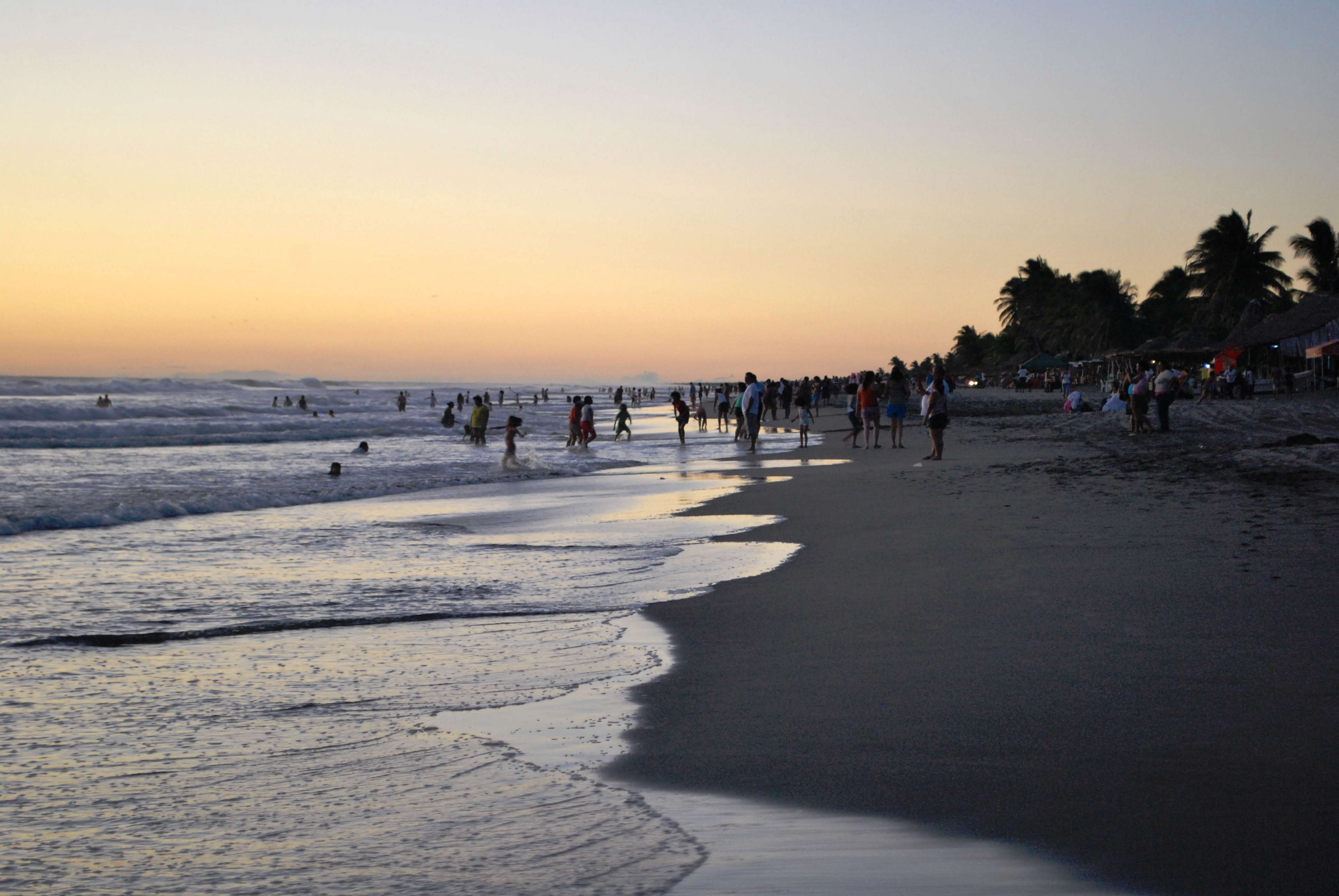 Beach at sunset in Puerto Arista, Chiapas